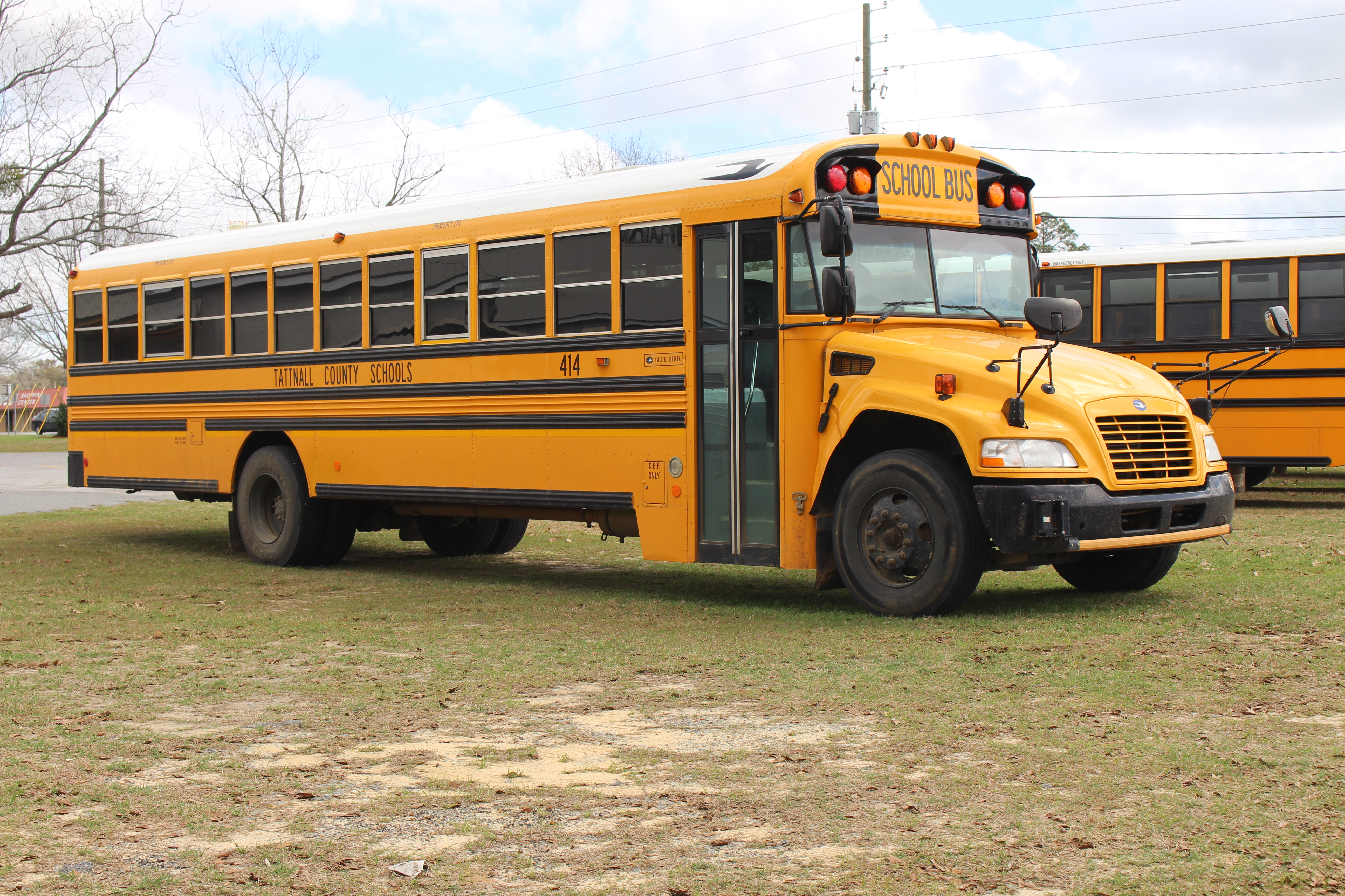 Reidsville, Tattnall County, Georgia